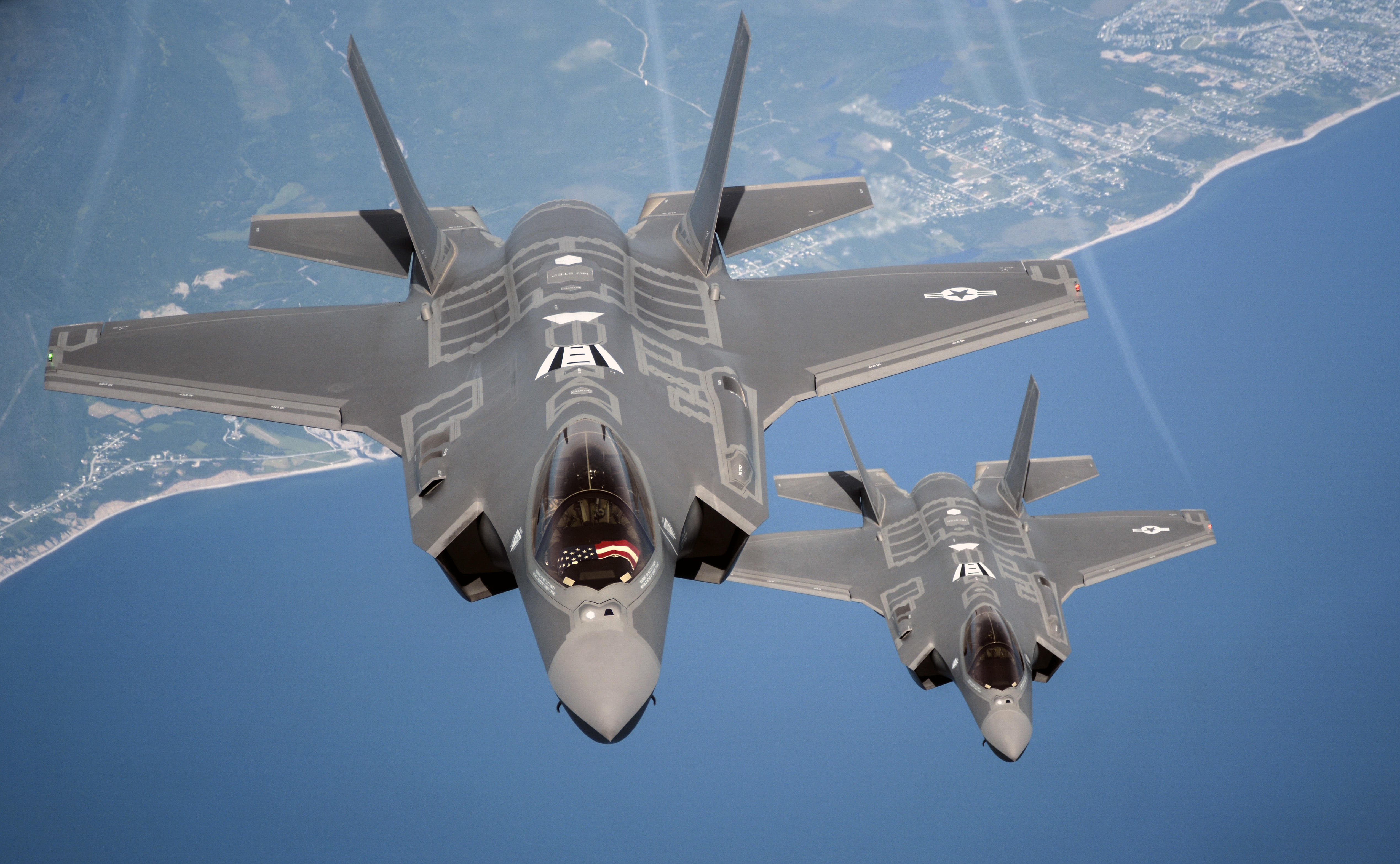 F-35A Lightning II aircraft receive aerial refuelings from a Travis KC-10 Extender July 13, 2016 on the flight from England to the United States. The fighters were returning to Luke Air Force Base, Arizona after participating in the world's largest air show. (U.S. Air Force photos by Staff Sgt. Madelyn Brown) Unit: 349th Air Mobility Wing